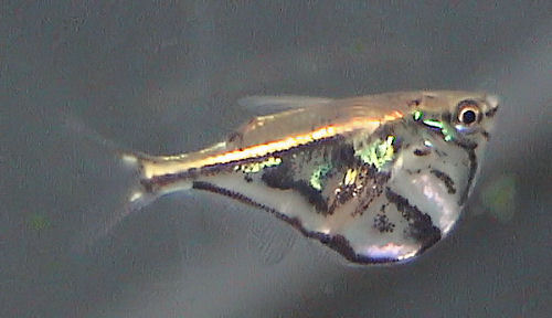 Carnegiella strigata Photographer: User:Dawson Category:Characiformes images